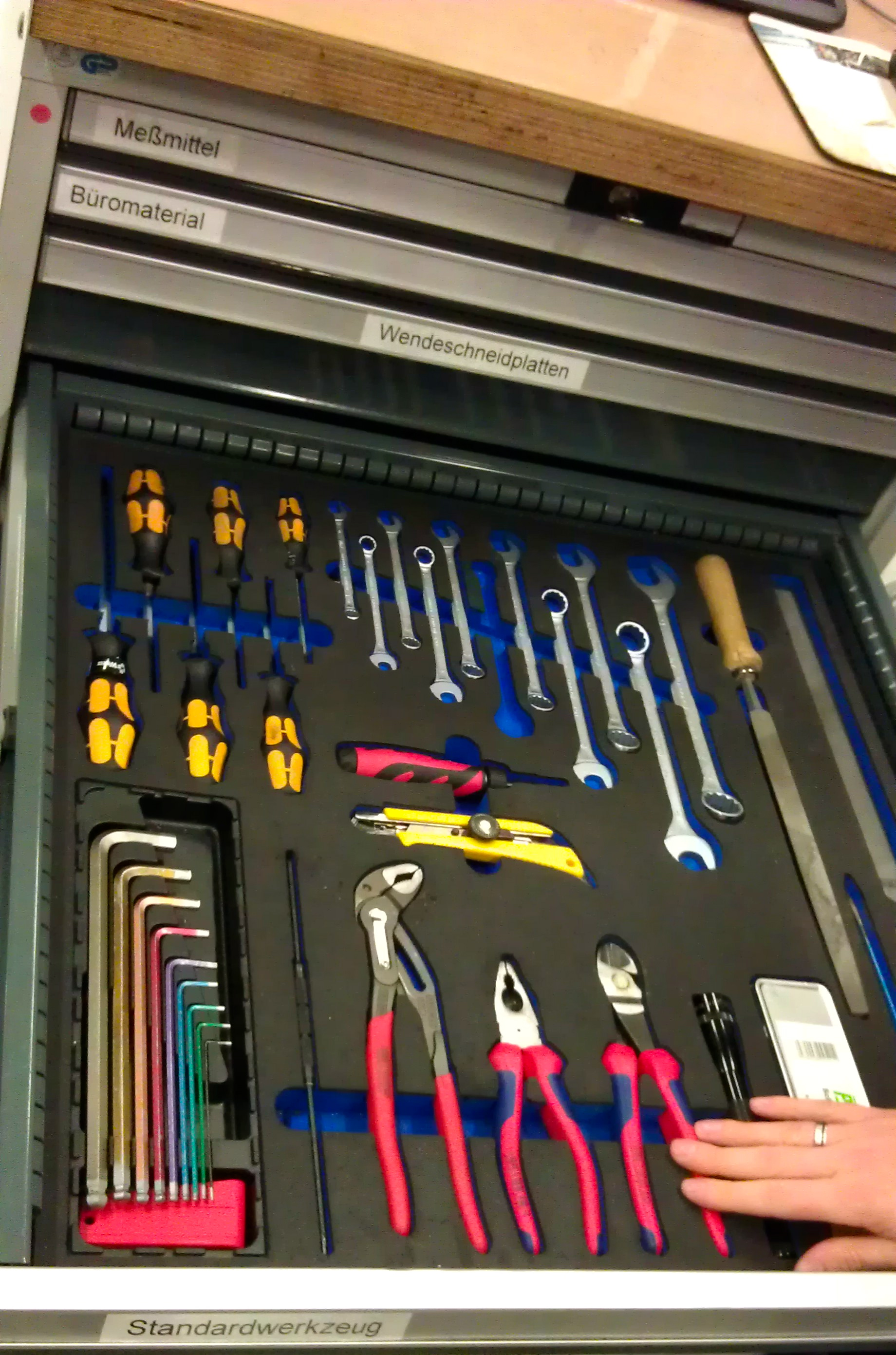 5S: Tools drawer